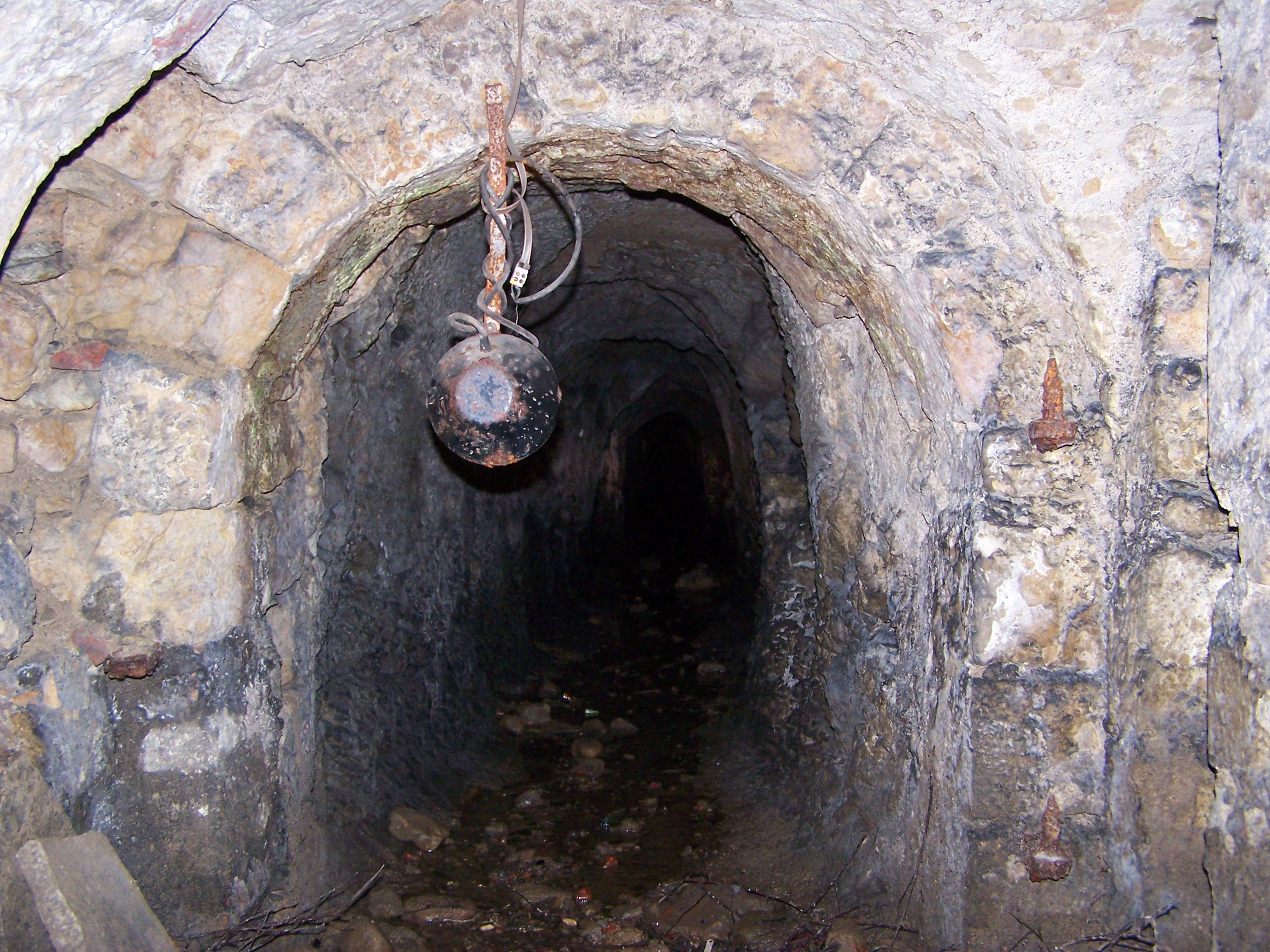 Tunnels under the stronghold in Kłodzko (Lower Silesia, Poland).